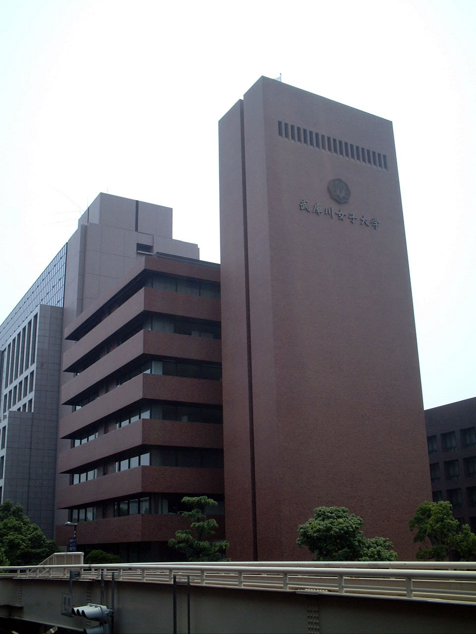 Mukogawa Women's University Symbolic Tower（武庫川女子大学）